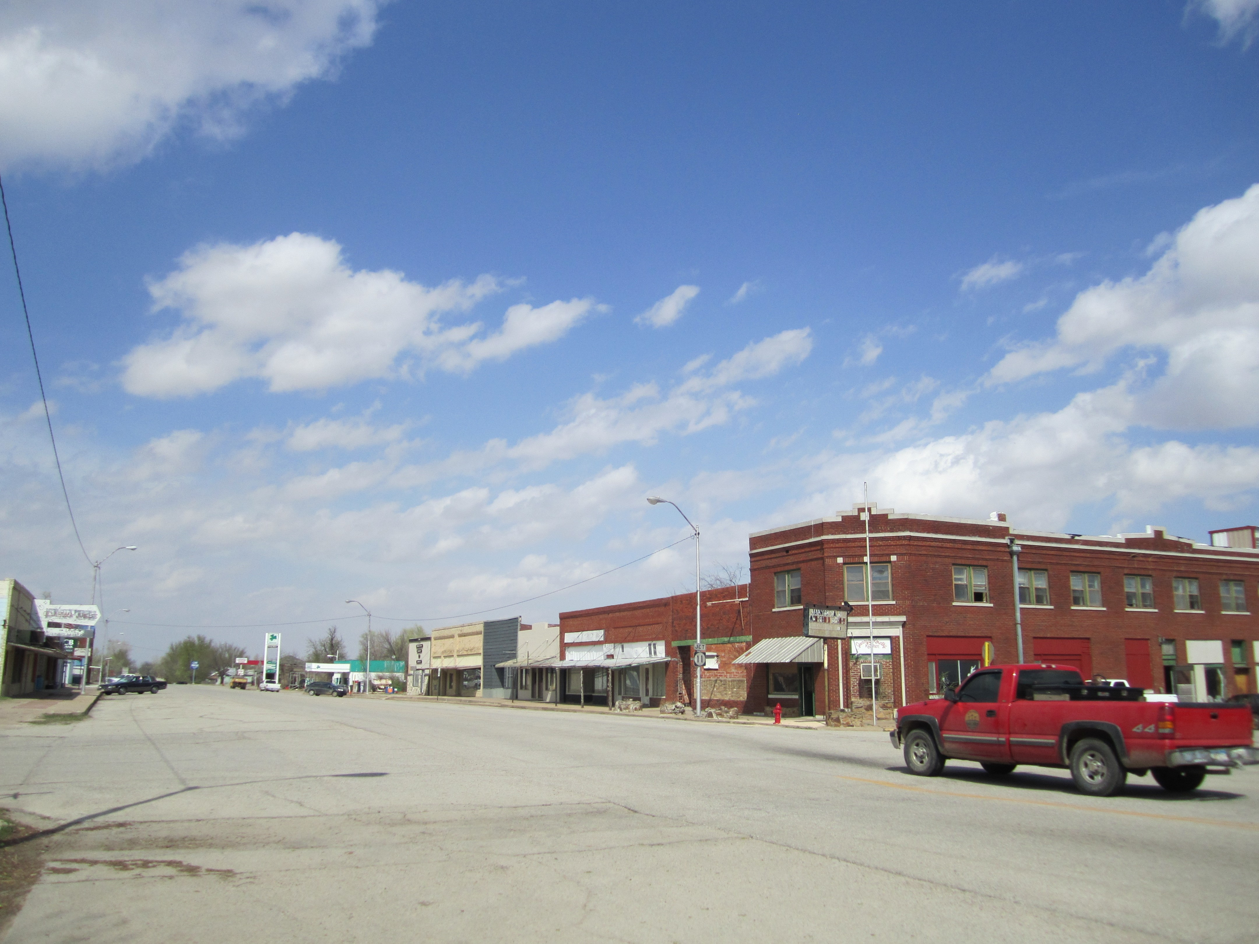 A photo of downtown Shidler, Oklahoma.